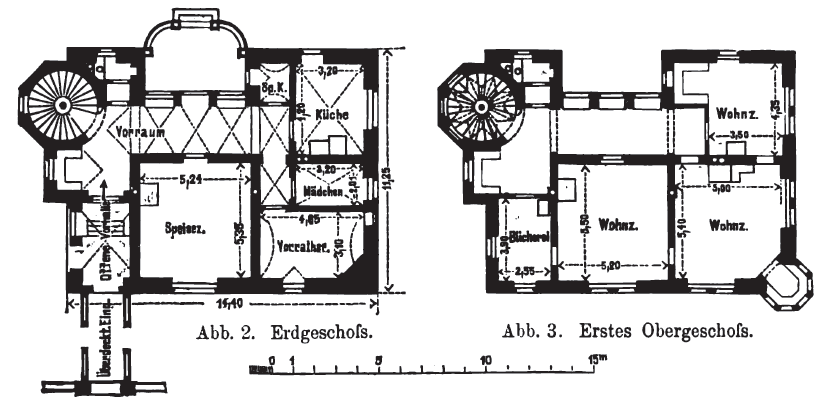 Floor plan of Villa Scheidemantel in Dresden, Germany